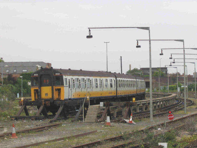 Carriage sidings. Redundant 'slam door' electric units in the carriage sidings outside Easbourne station.